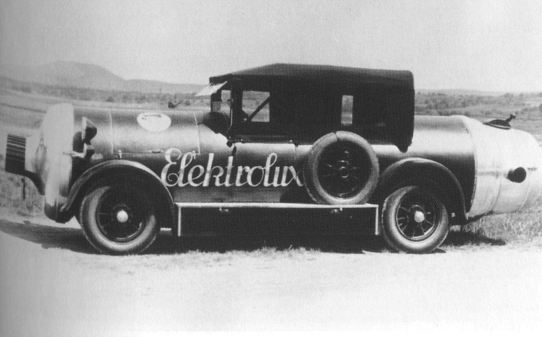 Reklambil för Electrolux (Elektrolux) dammsugare 1920-tal